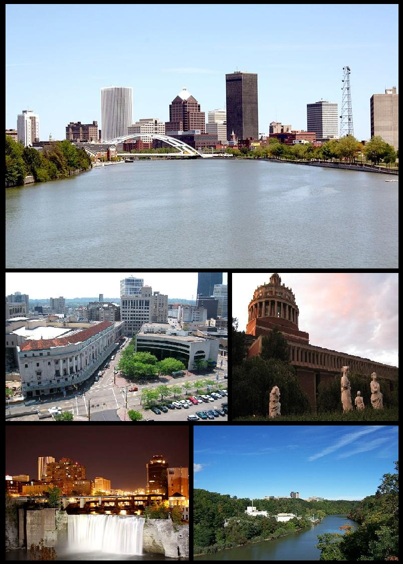 A collage of Rochester, NY photographs Top - Rochester Skyline from File:Rochester DT 08.JPG by User Evilarry (Does not have a page) Middle Left - Eastman Theater downtown from File:Eastman School of Music - general view.jpg by [1] Bottom Left - High Falls district from File:Rochester HighFalls Night.JPG by User Evilarry (does not have a page) Middle Right - Rush Rhees Library at the University of Rochester from File:RushRhees.jpg by [2] Bottom Right - View of Eastman Kodak research center from File:Kodak Research.JPG by User DanielPenfield (does not have a page)